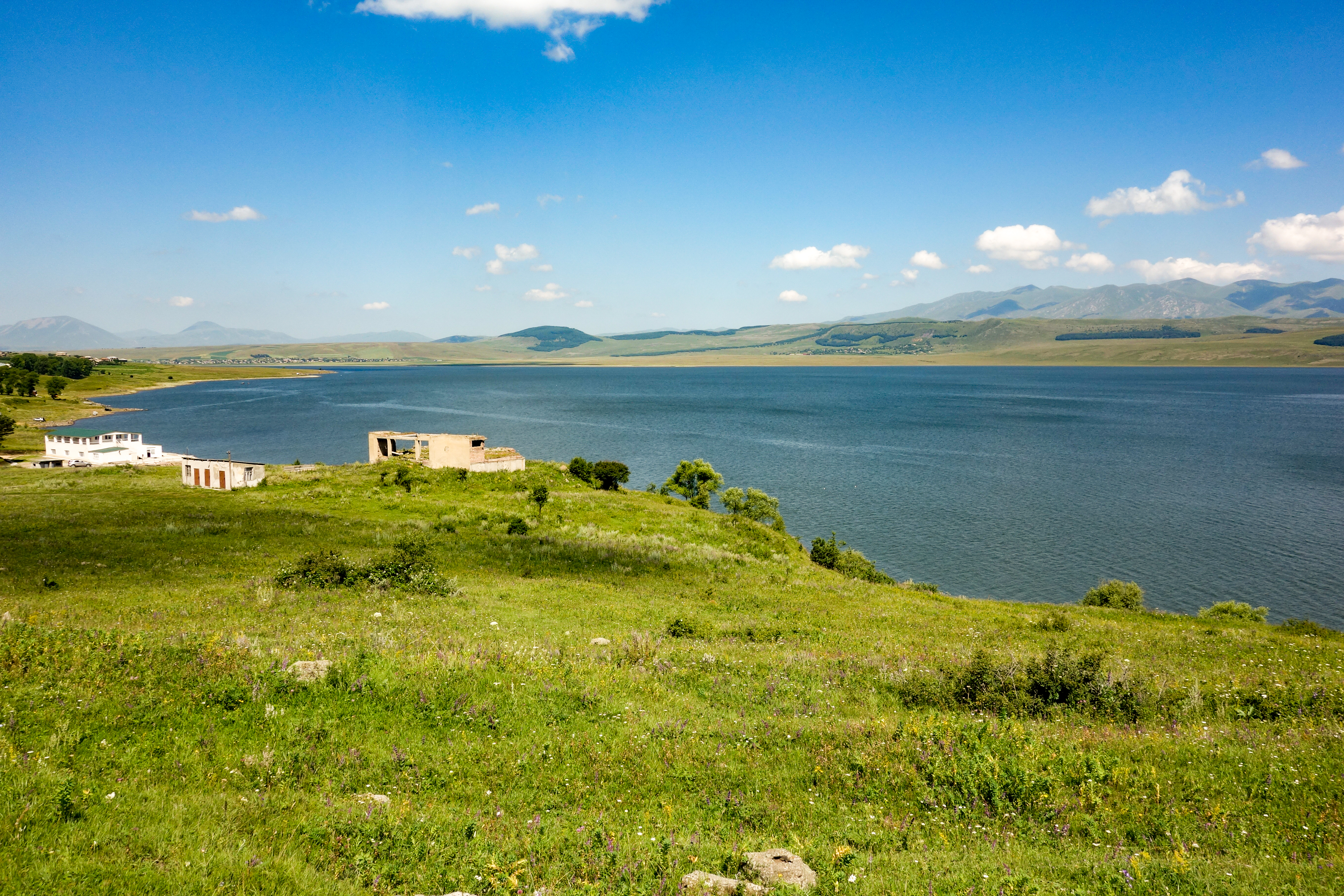 Tsalka Reservoir, Kvemo Kartli, Georgia